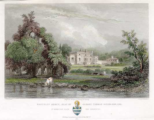 View of Waverley Abbey House, Surrey, England, from A Topographical History of Surrey, 1850.